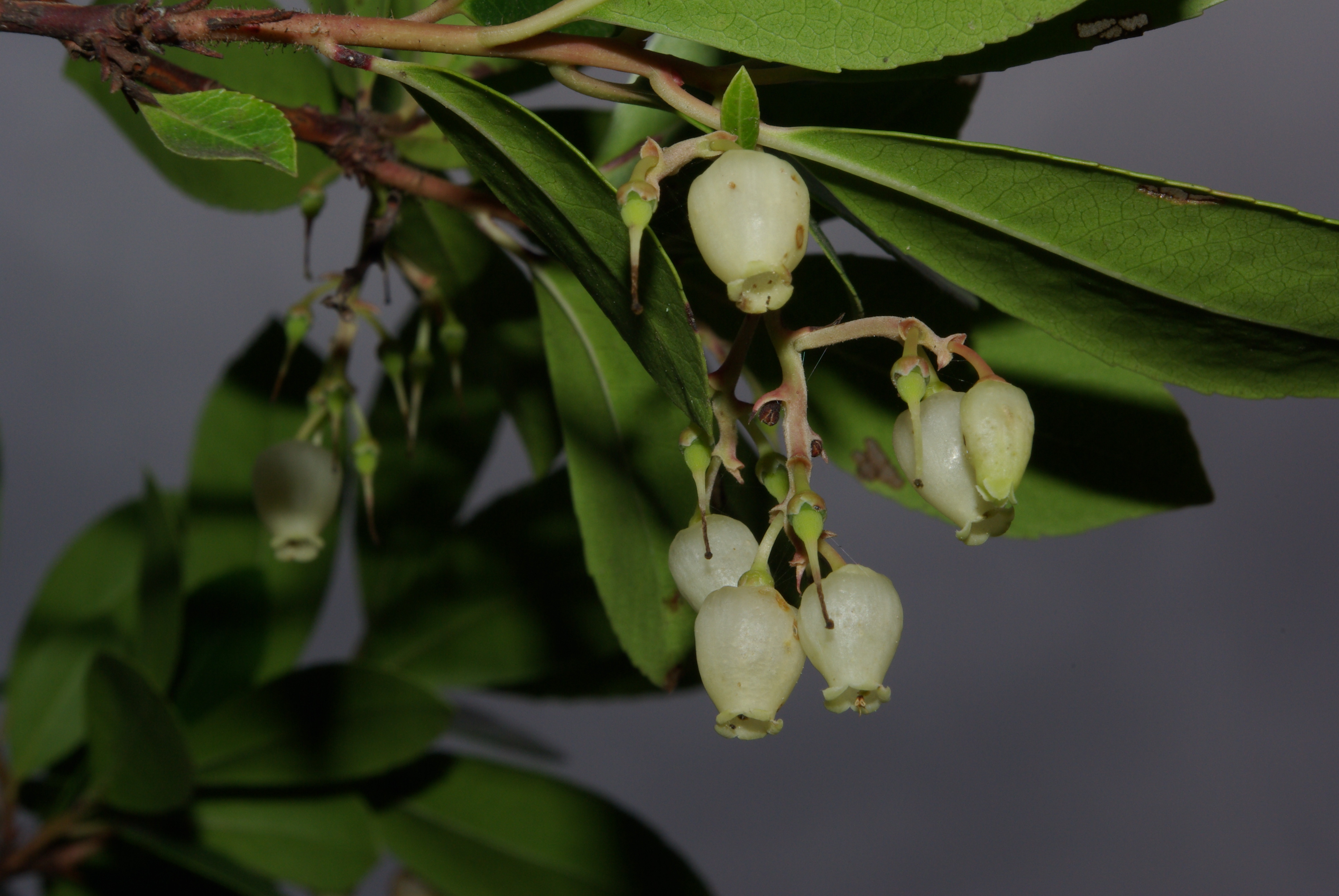 Flowers of Strawberry Tree (Arbutus unedo). National Park of Monfragüe